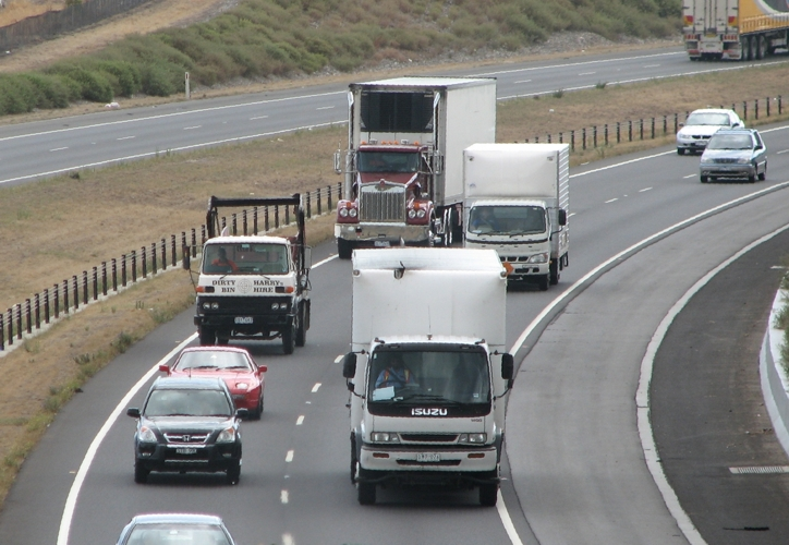 Hume Freeway (Craigieburn Bypass) at Lalor, Victoria, Australia